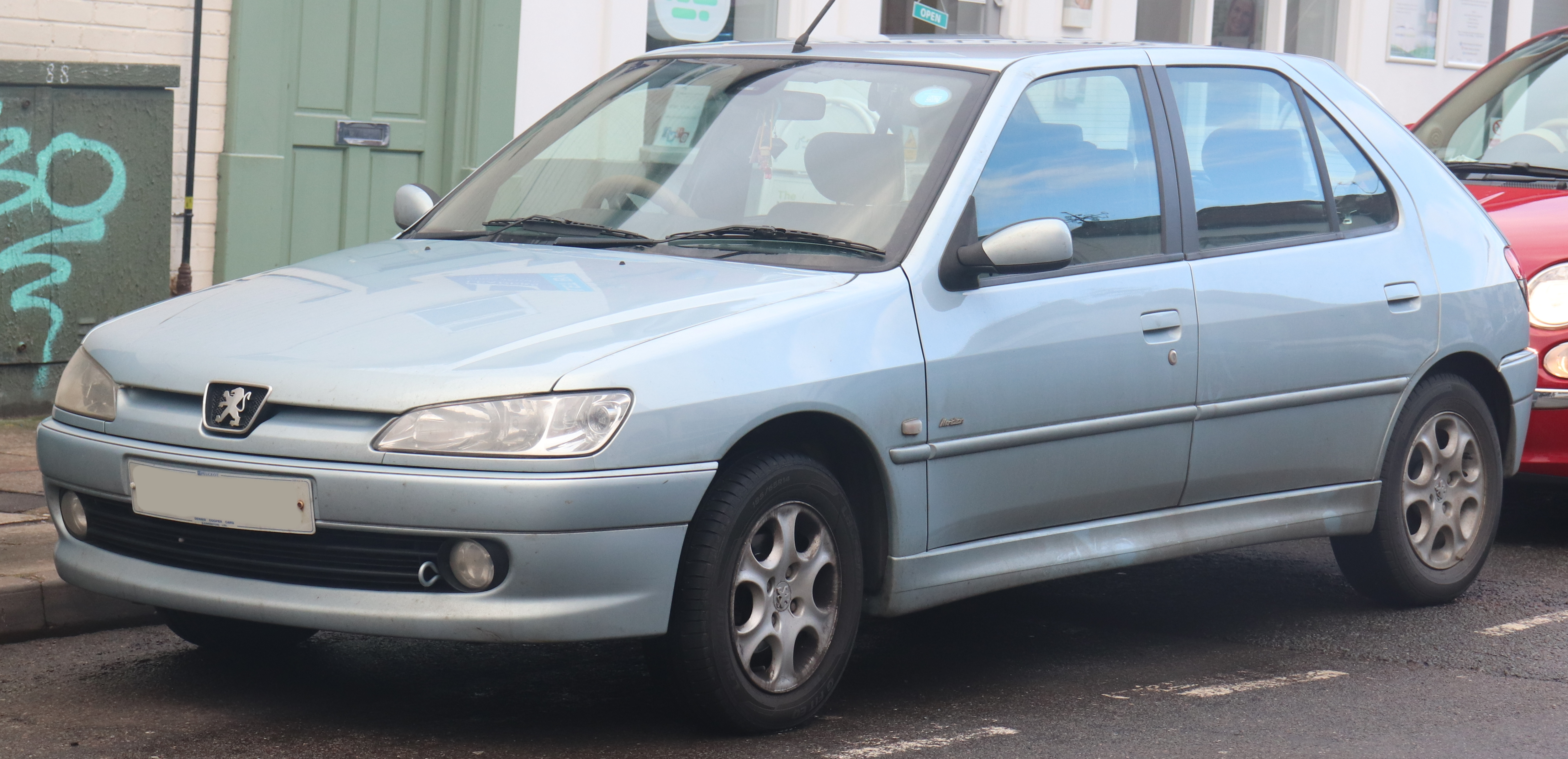 2000 Peugeot 306 Meridian 1.6 Taken in Leamington Spa